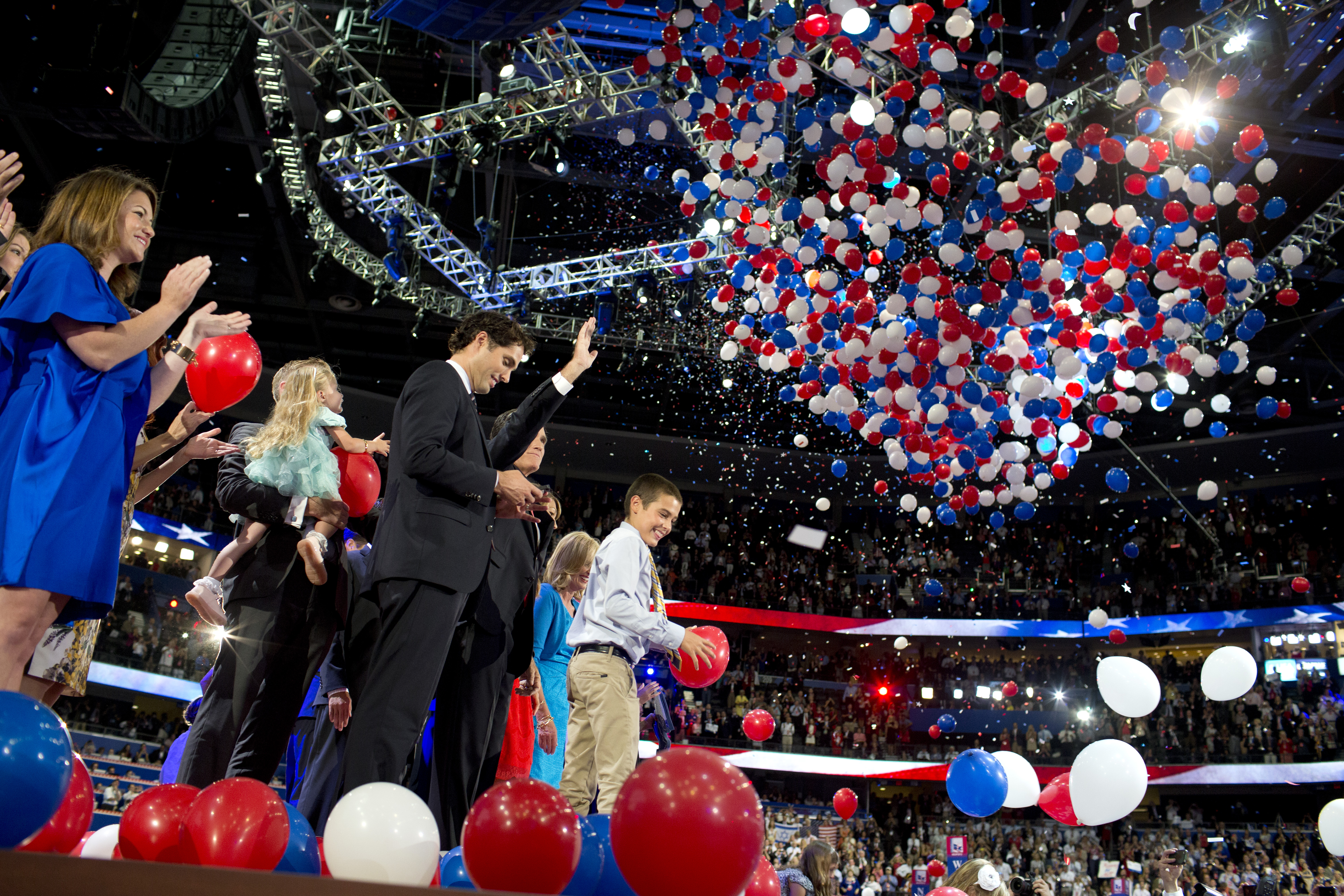 Members of the Romney family including GOP presidential nominee Mitt Romney, center, waving to crowd, gather as balloons drop after he finished delivering his acceptance speech on the final night of the Republican National Convention. Photo by Mallory Benedict / PBS NewsHour